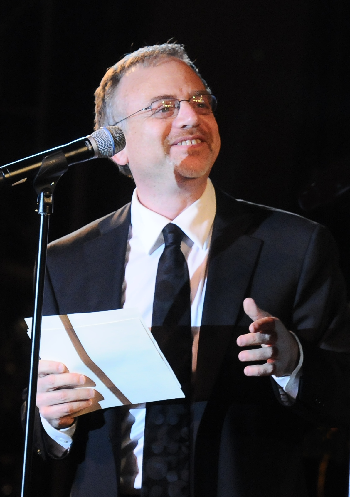 Cropped version of full image Composer Marc Shaiman (some elements have been photoshopped out)